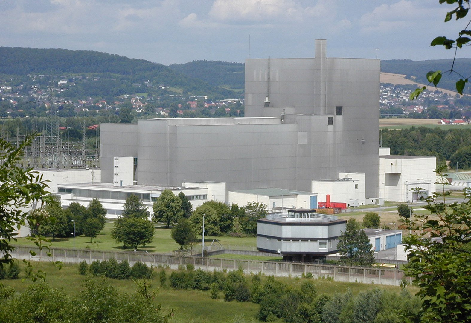 Würgassen nuclear power plant in Beverungen, District of Höxter, North Rhine-Westphalia, Germany. Left: Würgassen substation